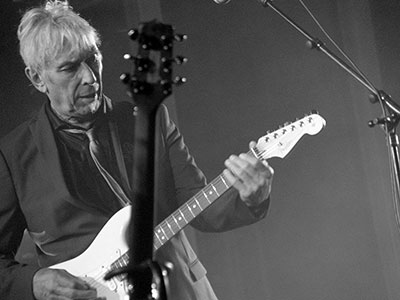 John Cale during his performance at the Aarhus Festuge, Aarhus, Denmark (29 August 2013) where he performed his 1982 album Music for a New Society in full.